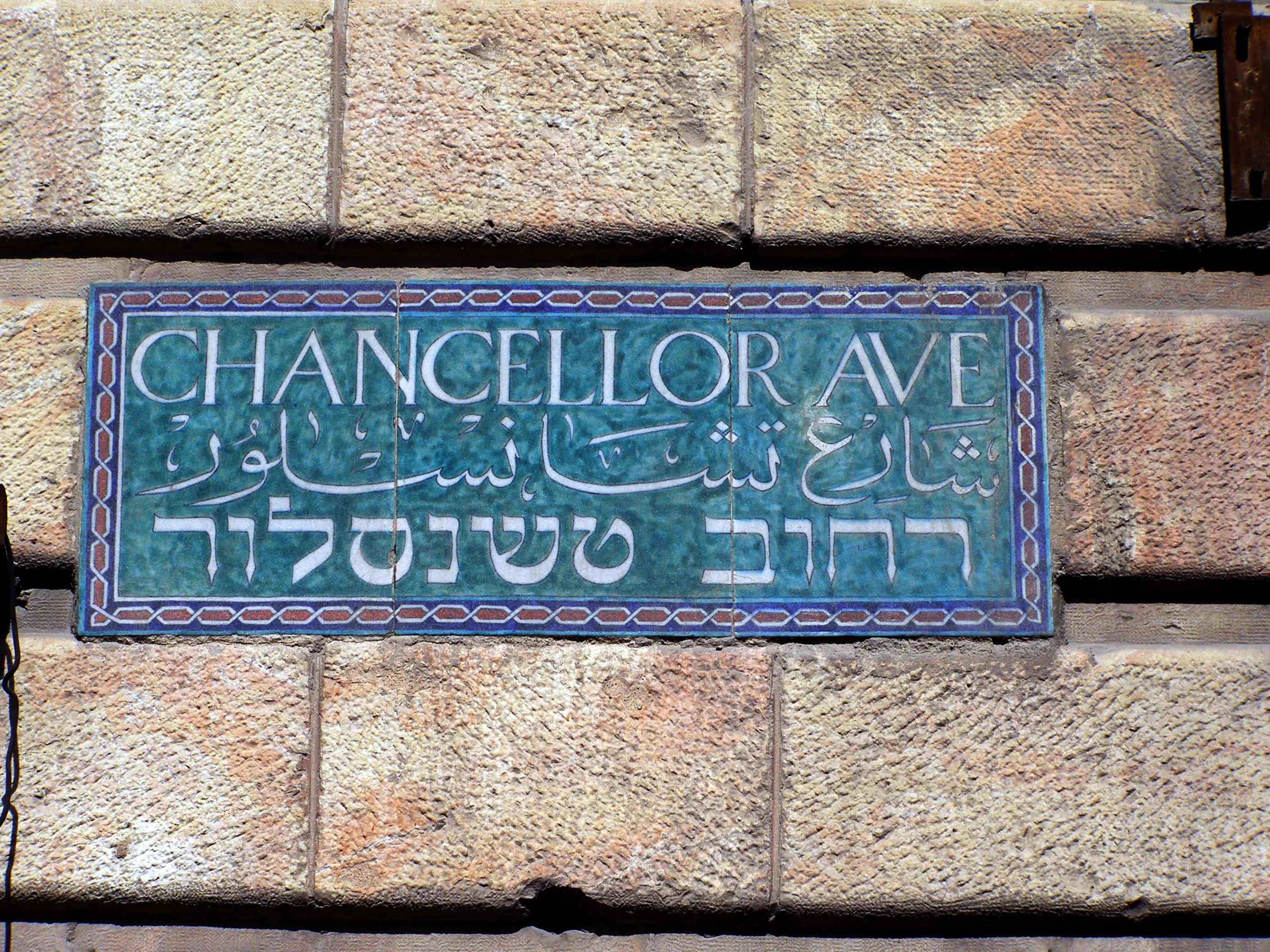 Jerusalem, Strauss street formerly Chancellor avenue sign OLYMPUS DIGITAL CAMERA